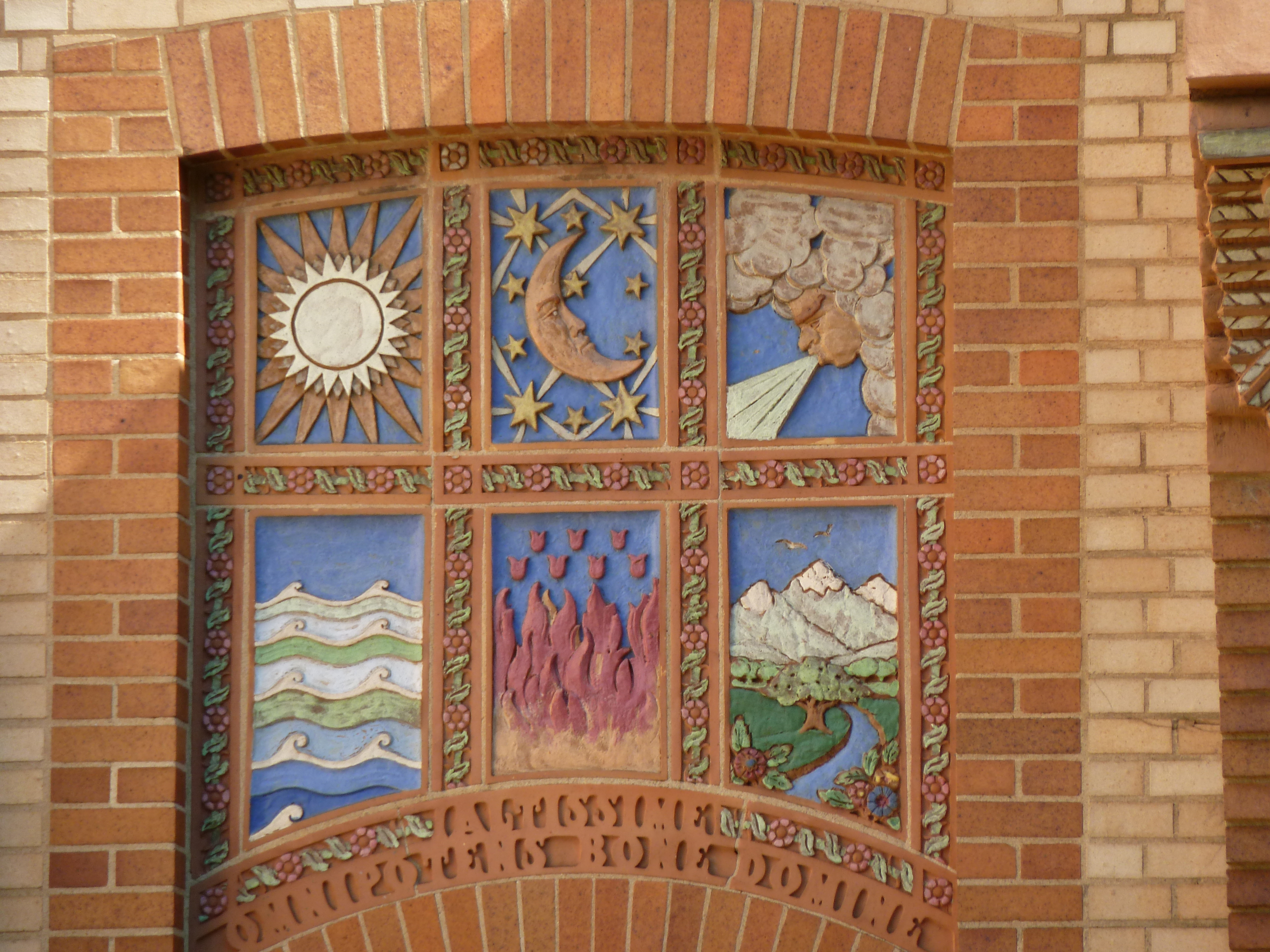 Laudes Creaturarum in Howard University School of Divinity.